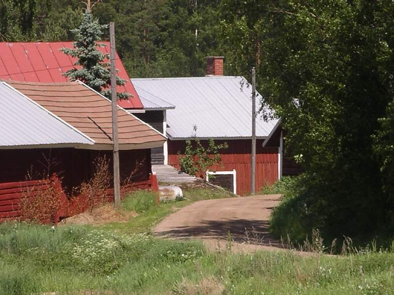 Byvägen (Kylätie) road in the village and island of Mogenpört (Munapirtti) in Pyhtää (Pyttis), Finland